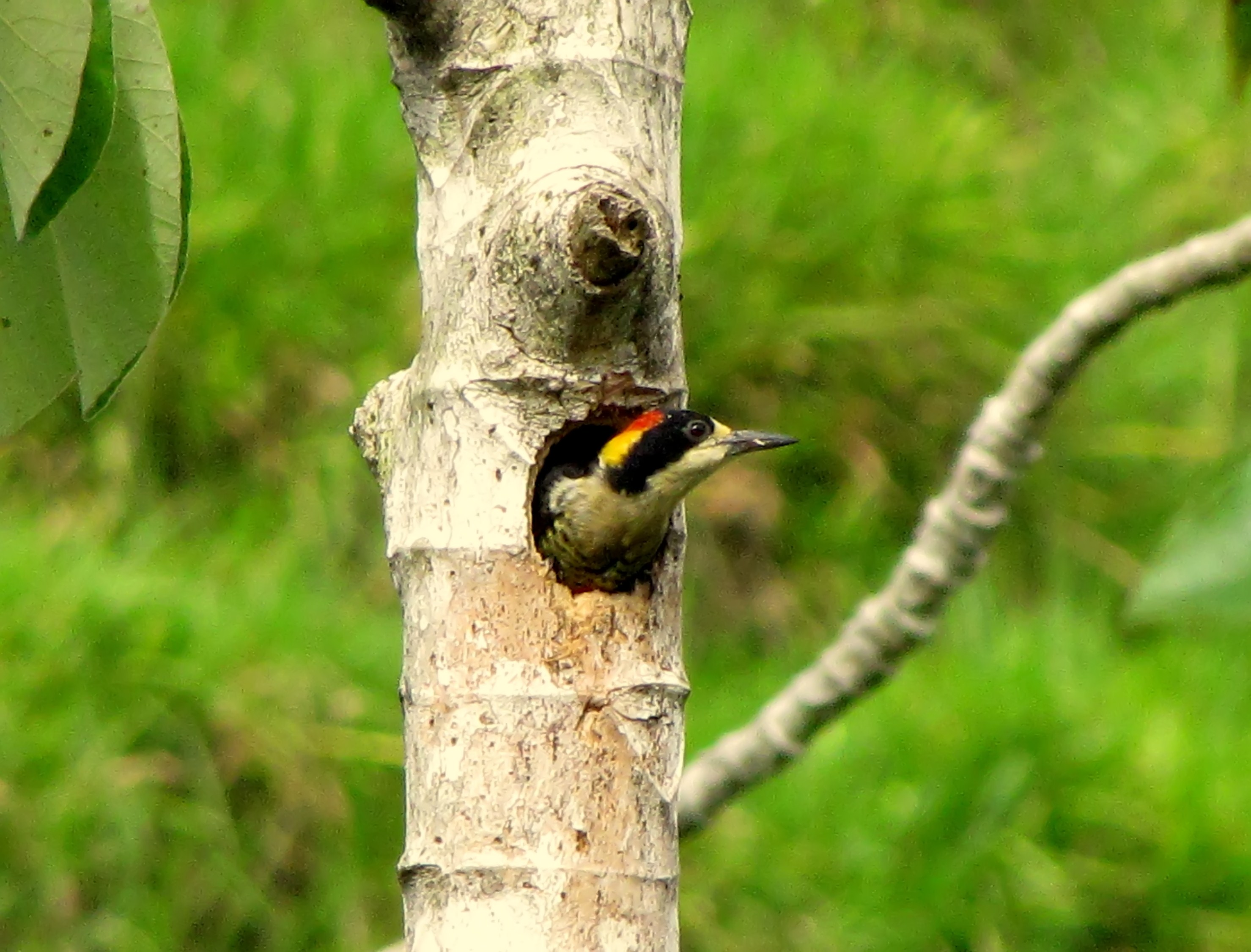 Beautiful Woodpecker (Melanerpes pulcher) in nesting cavity